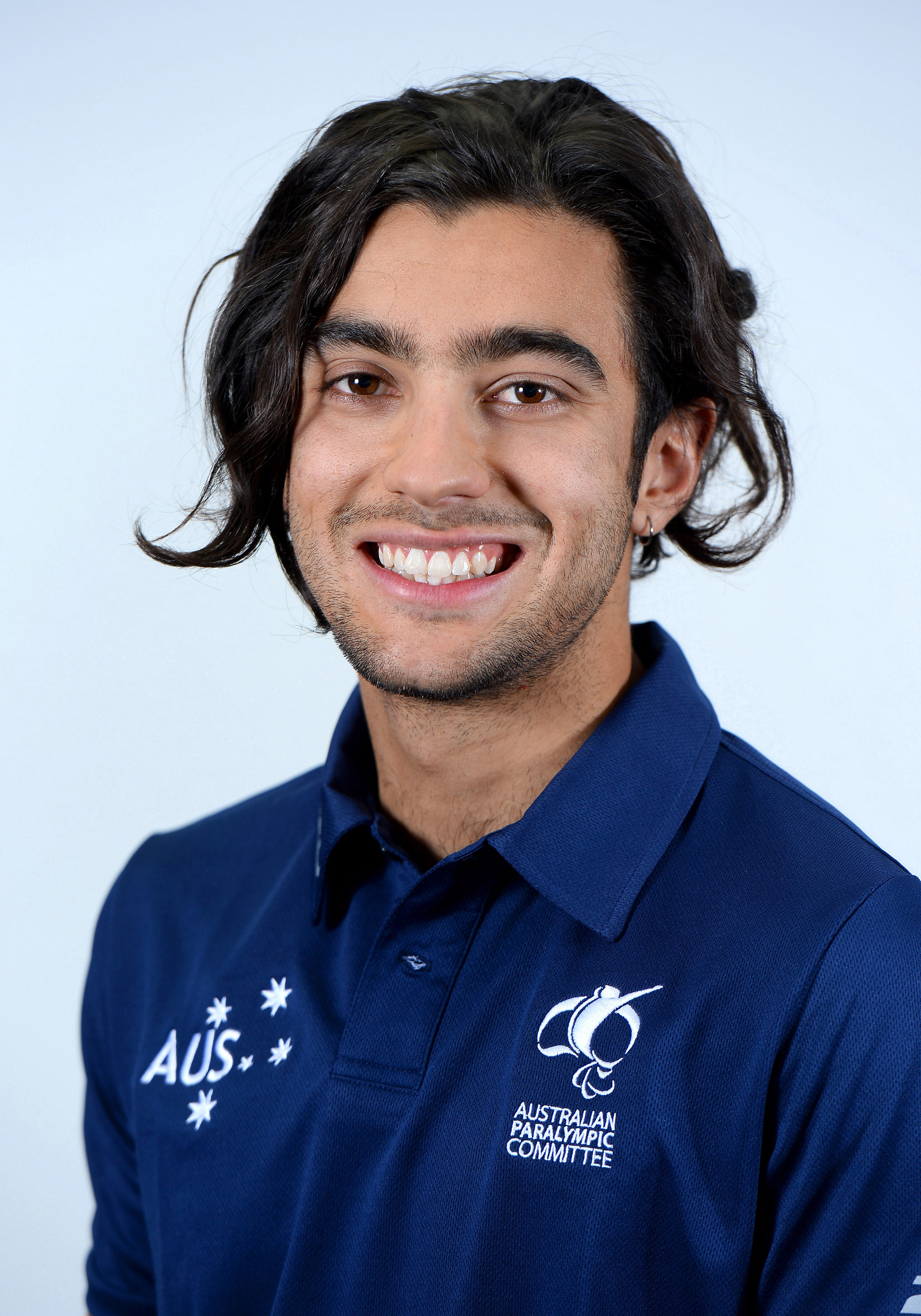 Portrait photograph of Gabriel Cole taken at team processing session for shadow members of 2016 Australian Paralympic team